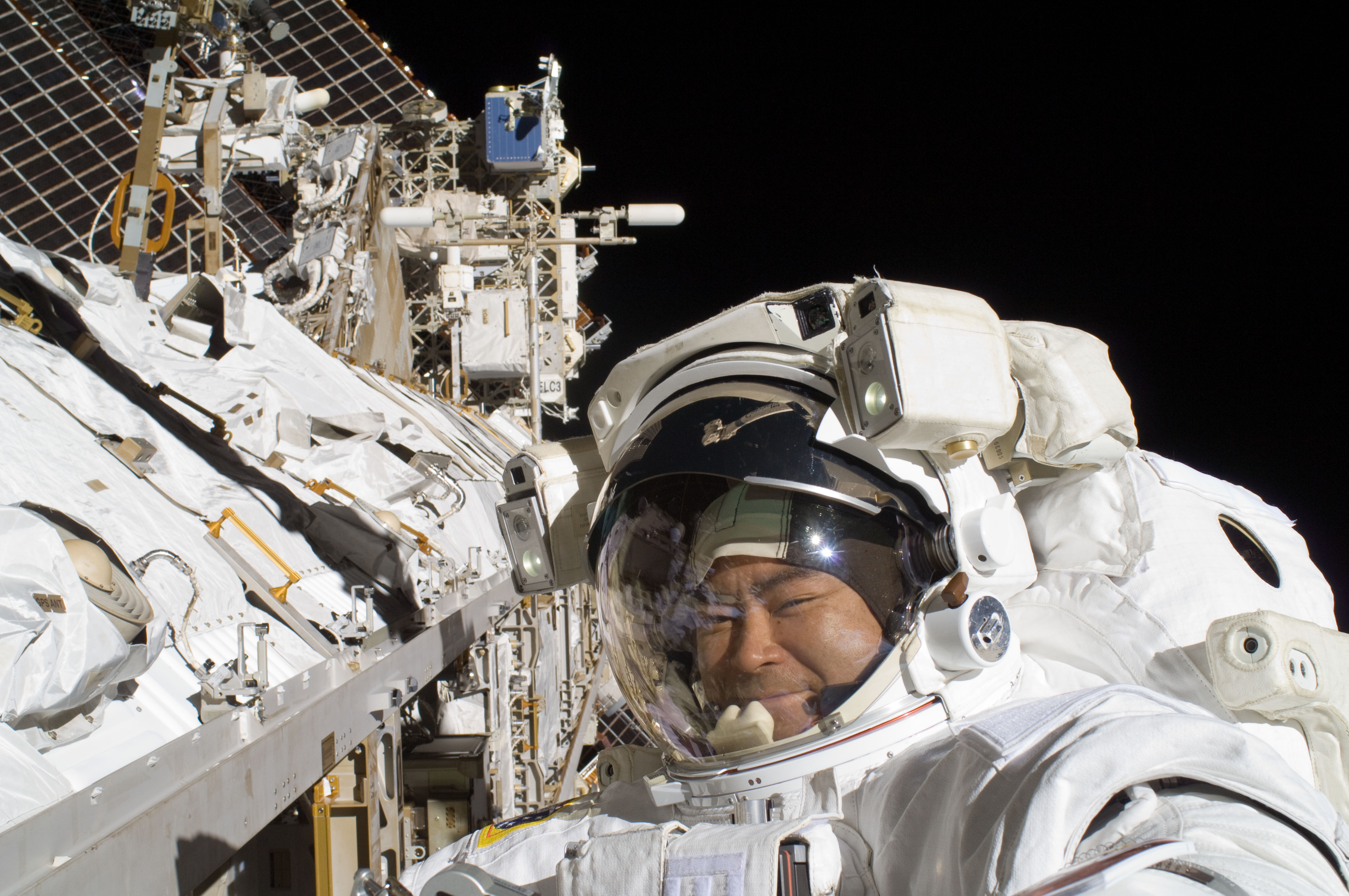 Japan Aerospace Exploration Agency astronaut Aki Hoshide, Expedition 32 flight engineer, participates in the mission's third session of extravehicular activity (EVA). During the six-hour, 28-minute spacewalk, Hoshide and NASA astronaut Sunita Williams (out of frame), flight engineer, completed the installation of a Main Bus Switching Unit (MBSU) that was hampered last week by a possible misalignment and damaged threads where a bolt must be placed. They also installed a camera on the International Space Station's robotic arm, Canadarm2.